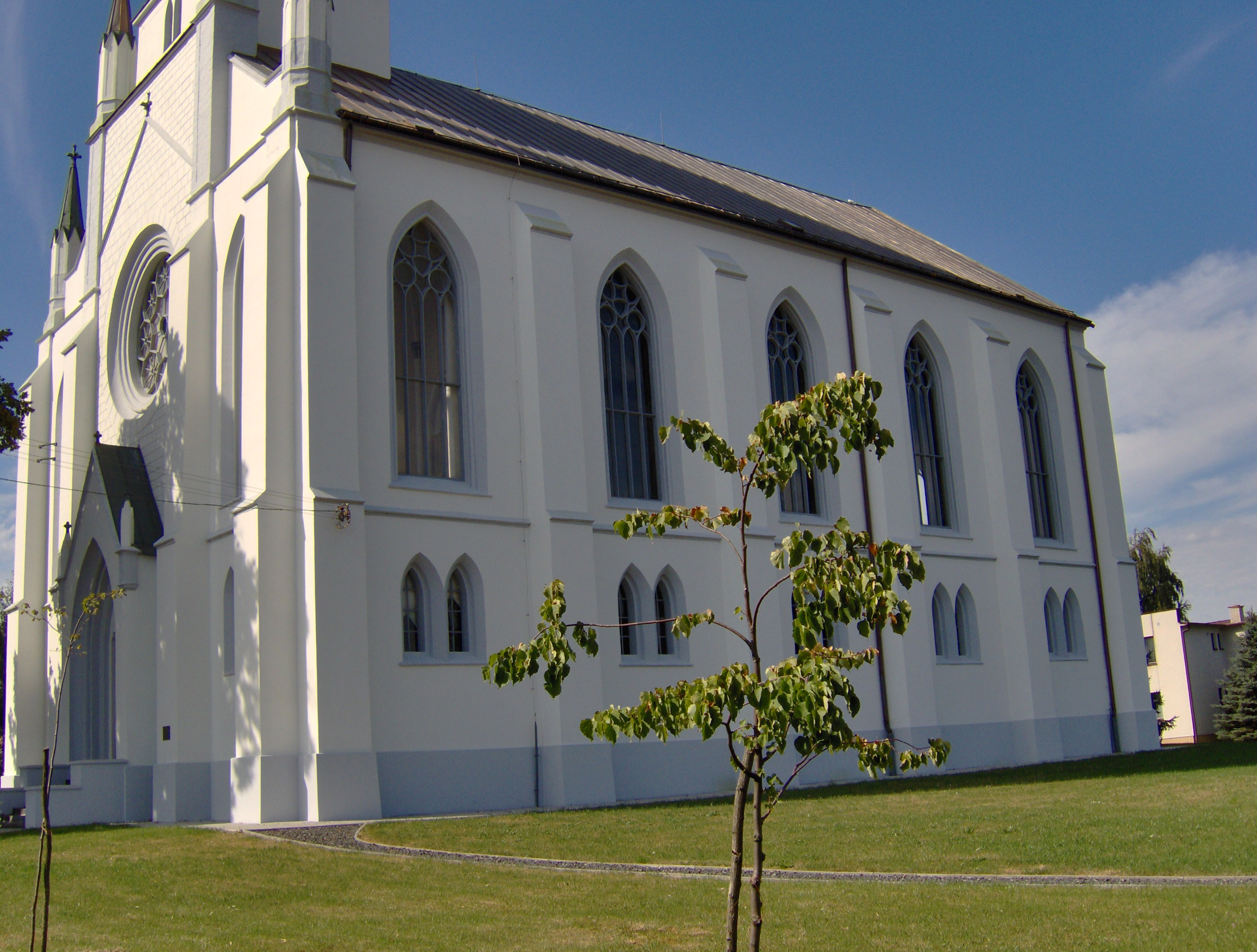 Bátovce , ev. church